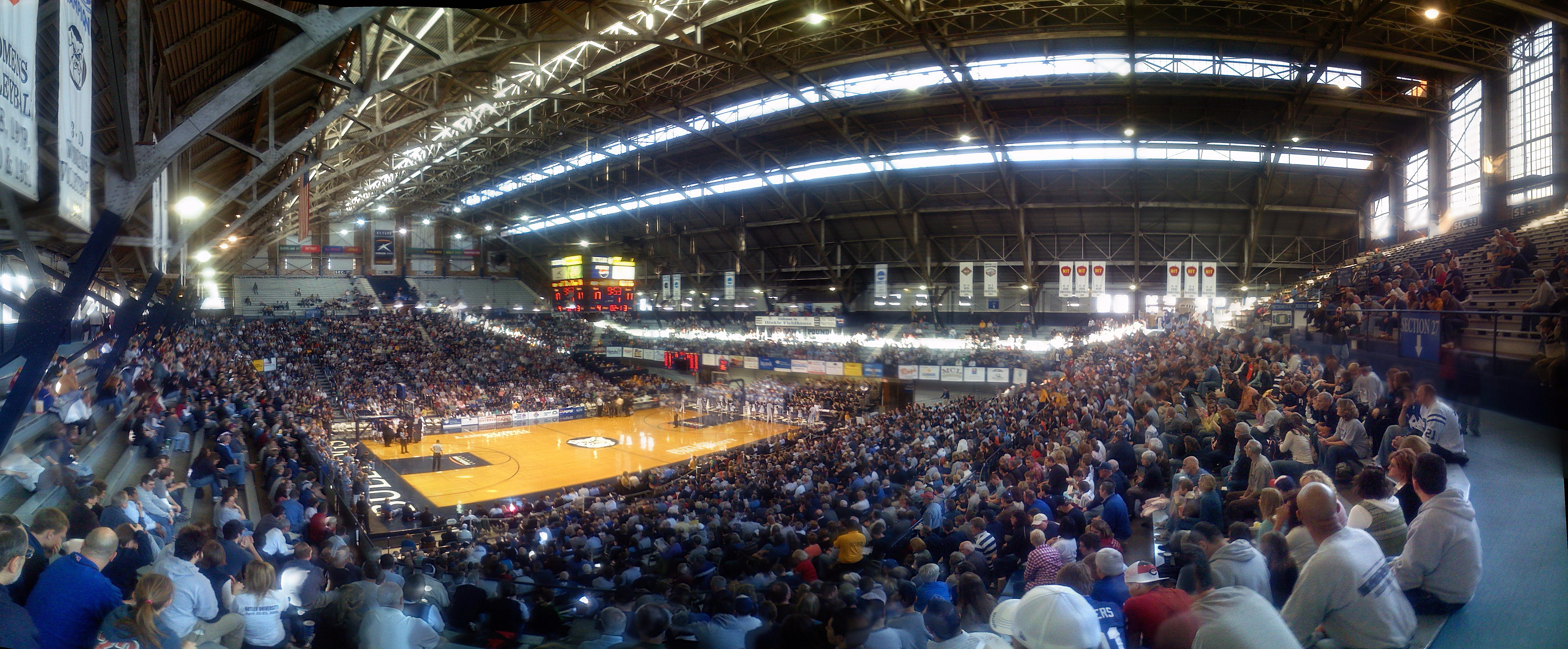 An interior panorama of Hinkle Fieldhouse.